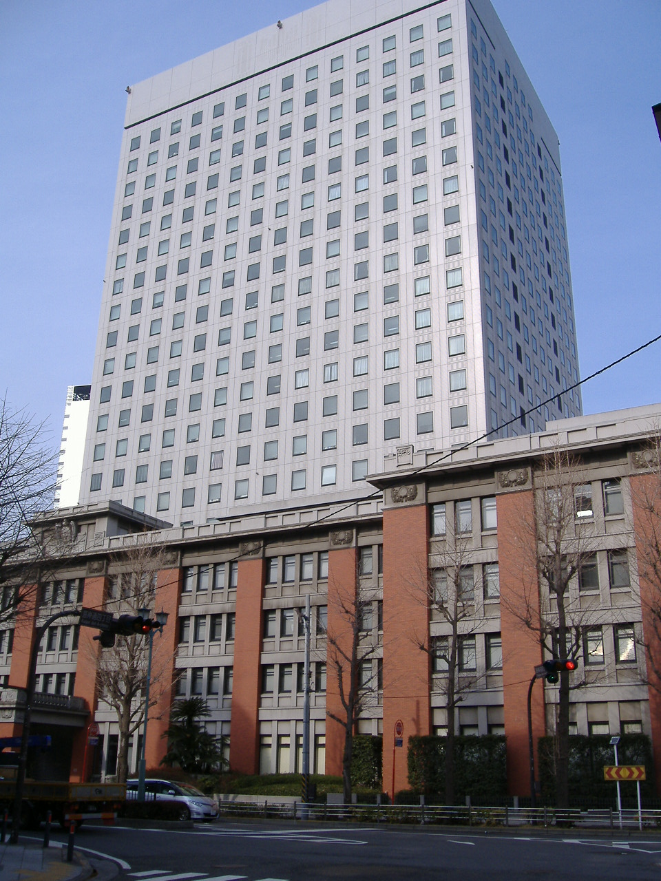 Yokohama Government building (Yokohama,Japan)